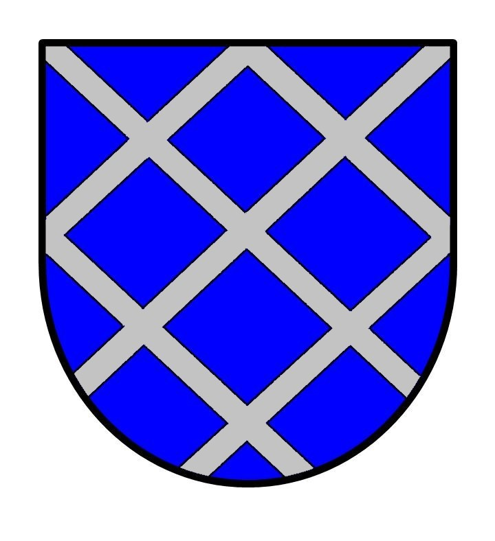 Coat of arms Johann von Clotten